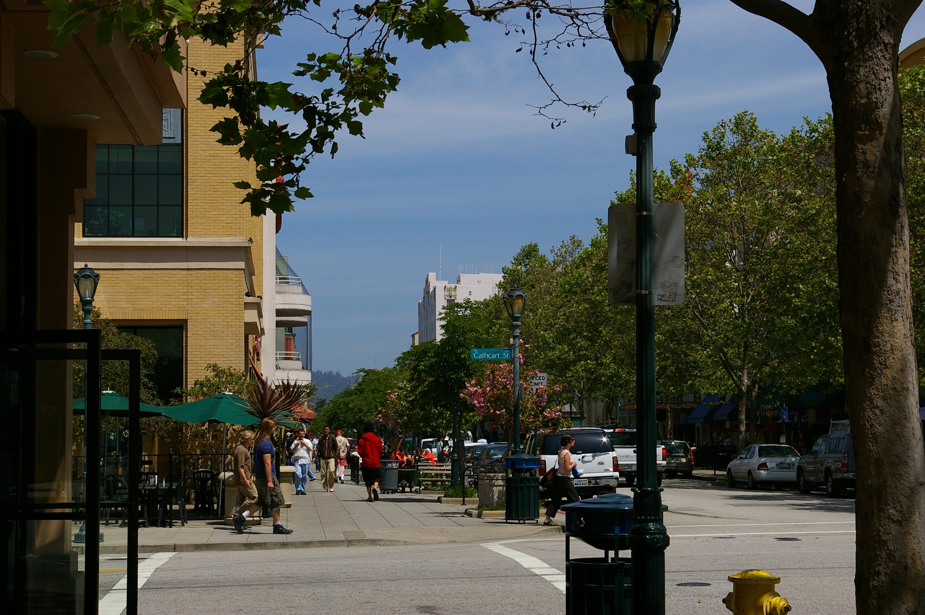 Pacific & Cathcart in Downtown Santa Cruz. Picture taken by me.